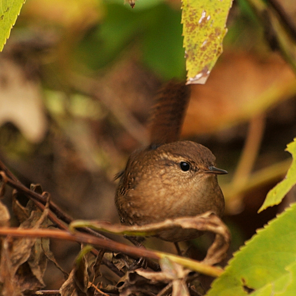 Eastern Winter Wren Troglodytes hiemalis. Chicago, Illinois, USA.